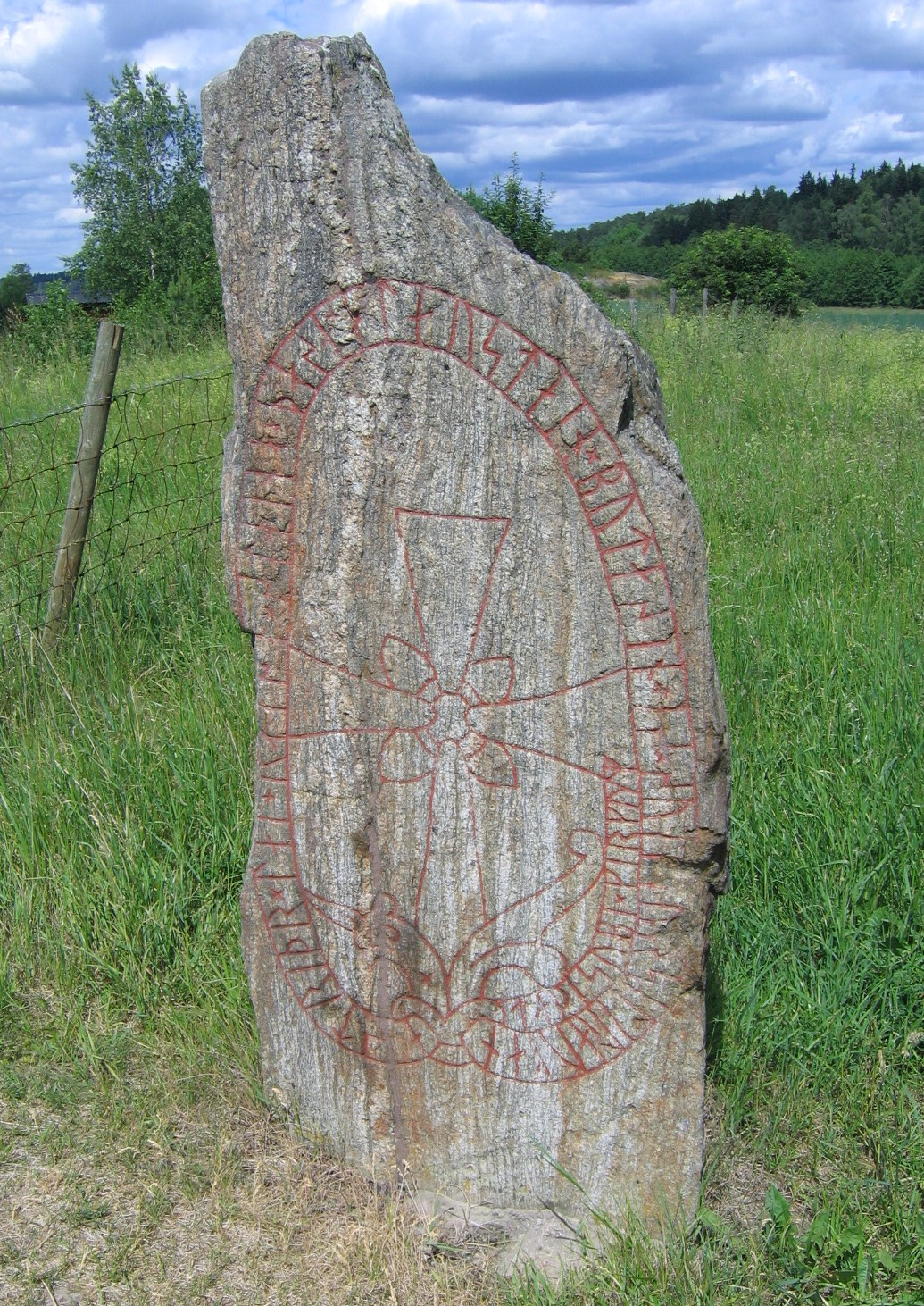 Runestone U 136 standing at Broby bro, near Täby in Uppland, Sweden.